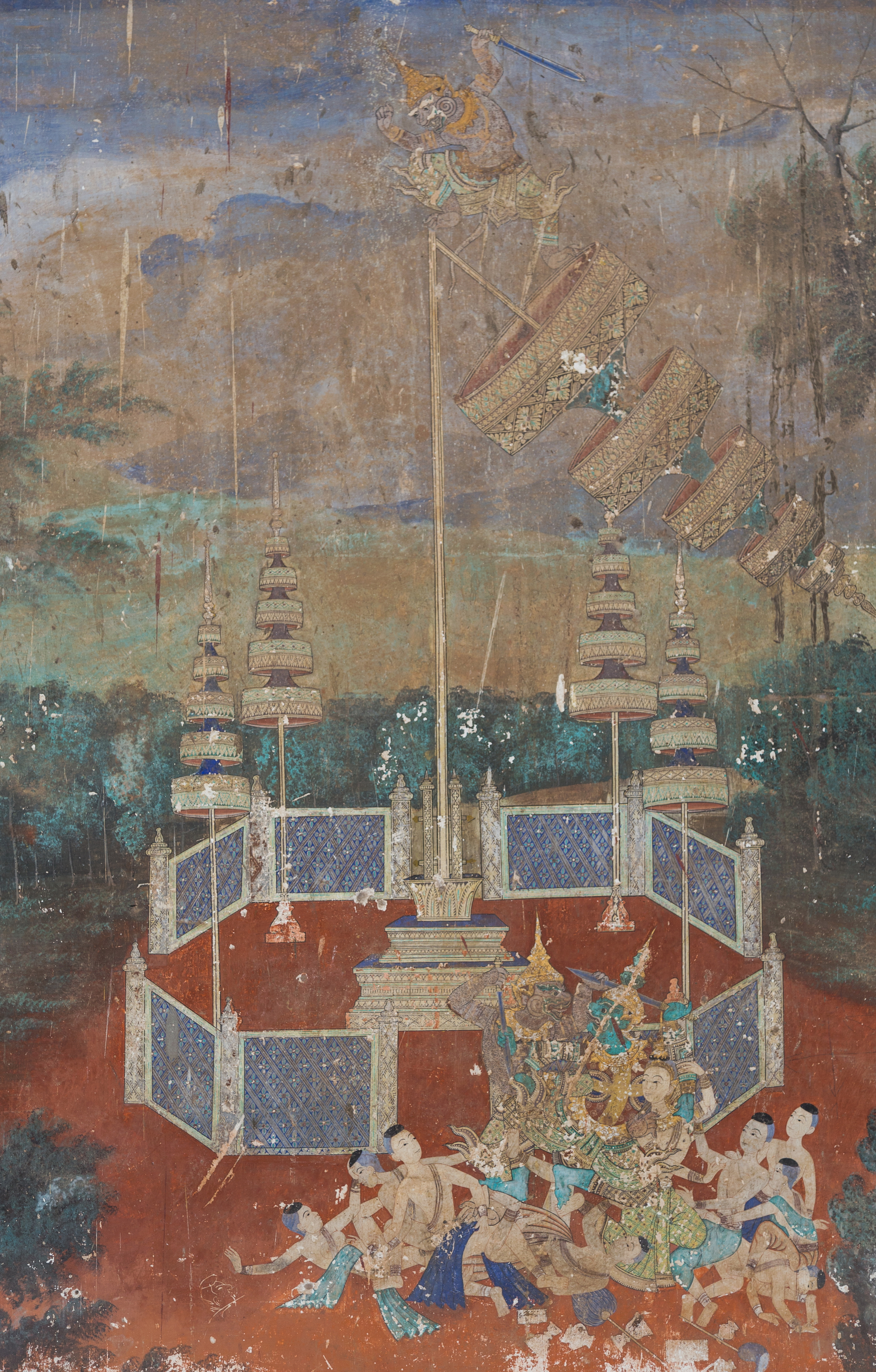 Paintings depicting scenes from the Reamker (Khmer epic poem based on the Ramayana). Royal Palace. Phnom Penh, Cambodia.